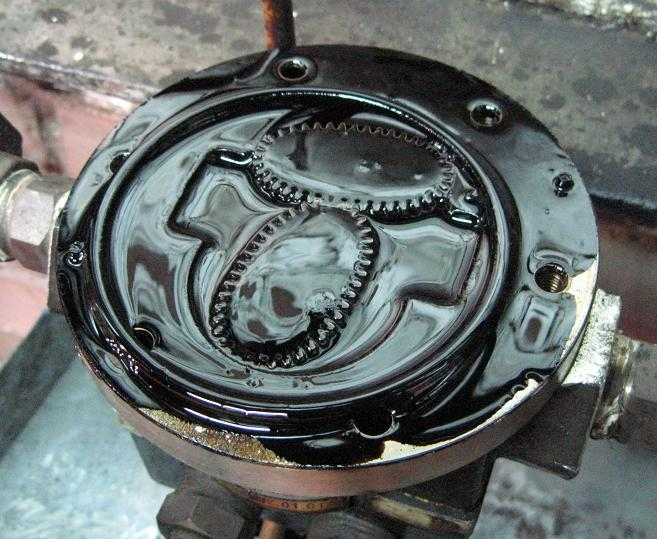 This a picture of inside part in a positive displacement flow measure device.